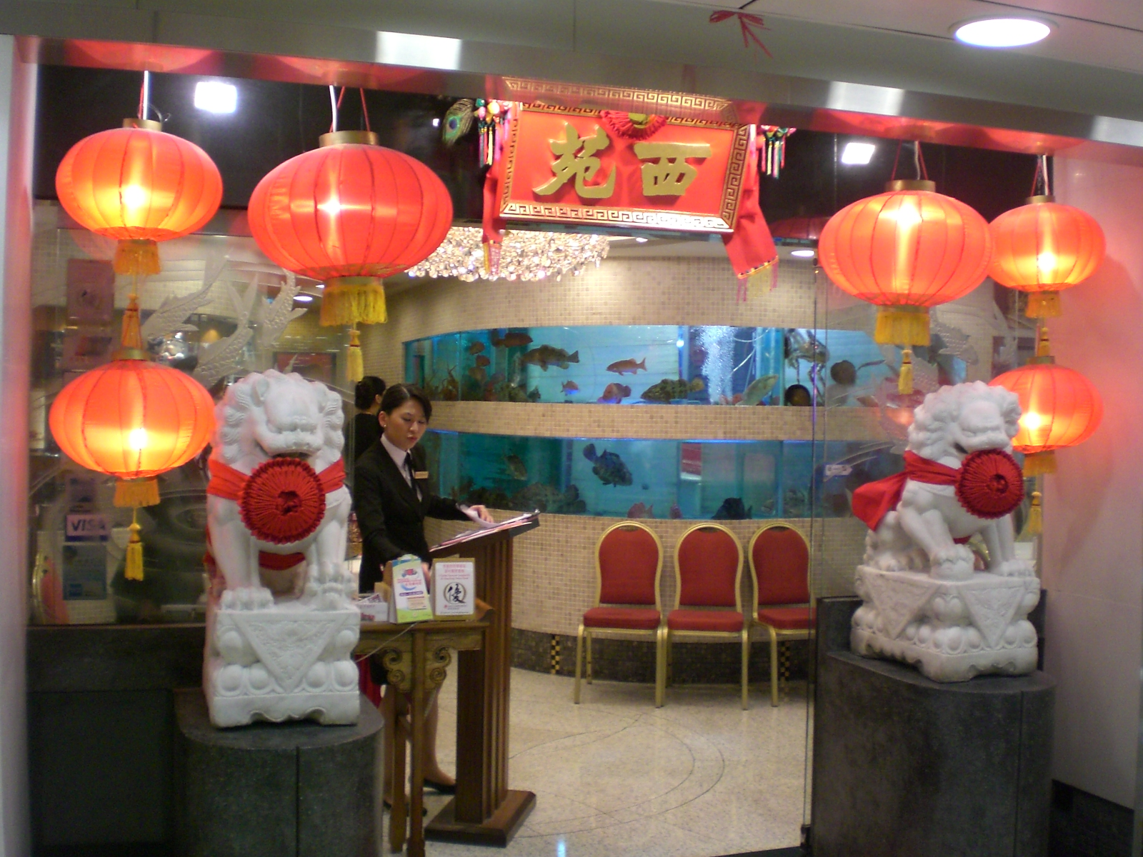 銅鑼灣, Causeway Bay Author= Kwanyatsw